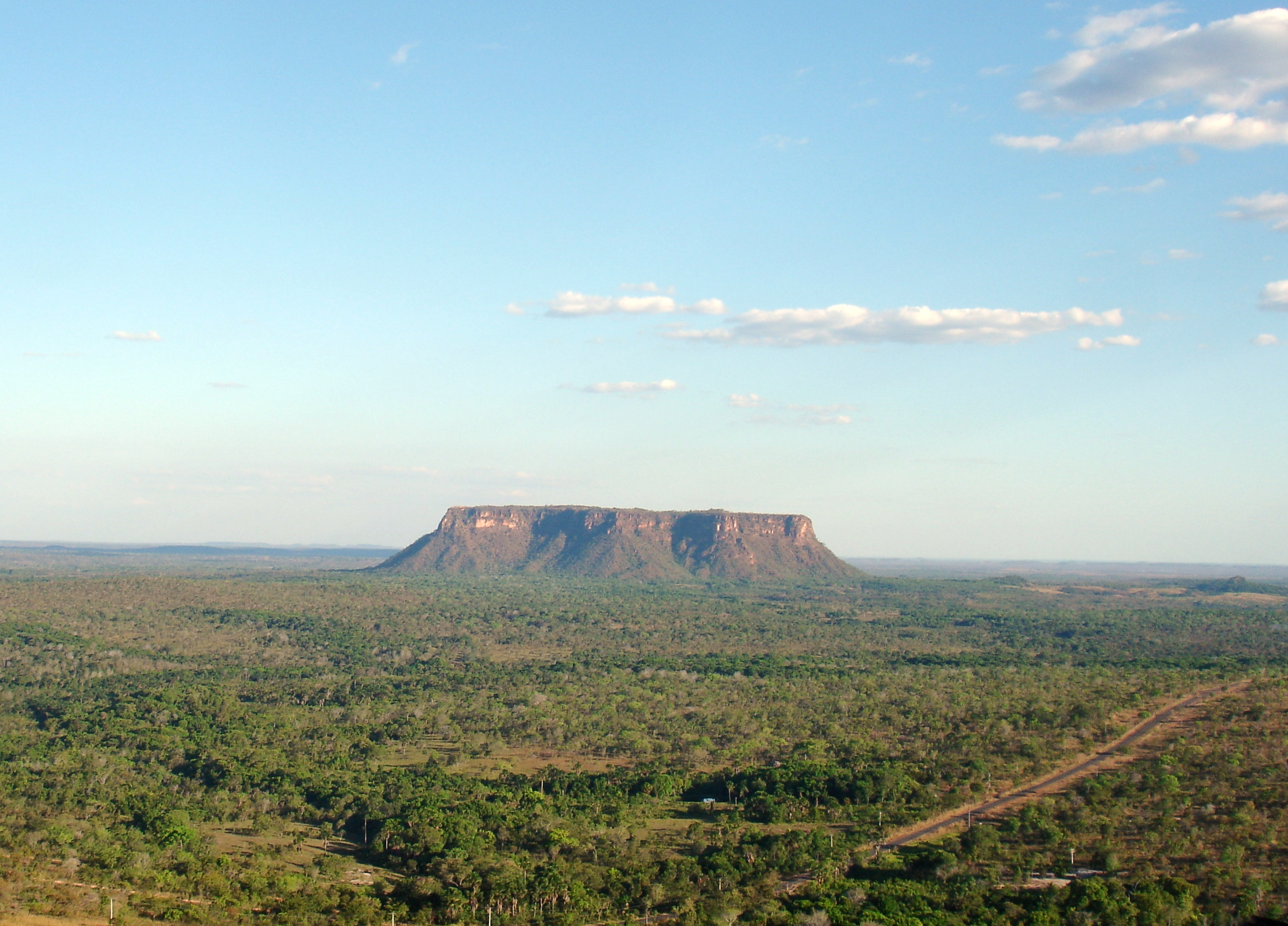 Morro do Chapéu at the Chapada das Mesas National Park. While this mountain is not inside the park, it is one of the best known landmarks of the region.